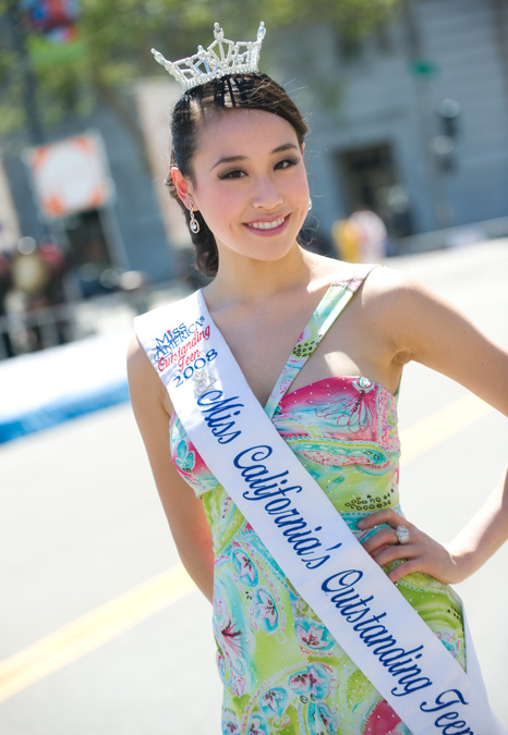 Crystal Lee, Miss California's Outstanding Teen 2008, in Cherry Blossom Festival Grand Parade 2009.